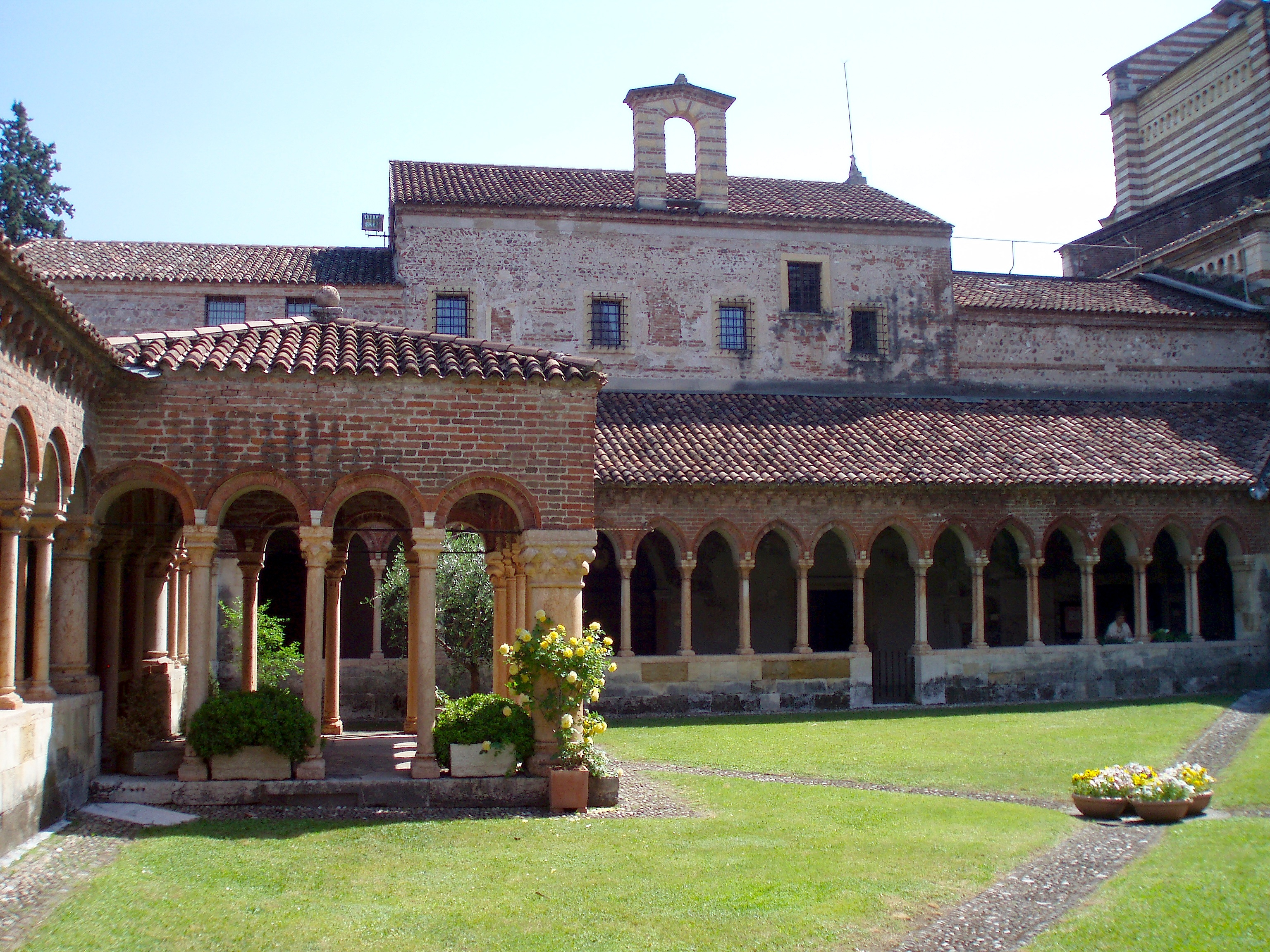 Cloister at San Zeno (Verona), view from southwest